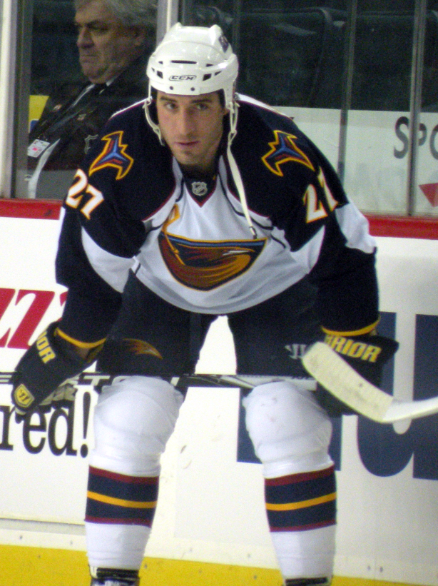 Atlanta Thrashers forward Chris Thorburn prior to a National Hockey League game against the Calgary Flames, in Calgary.